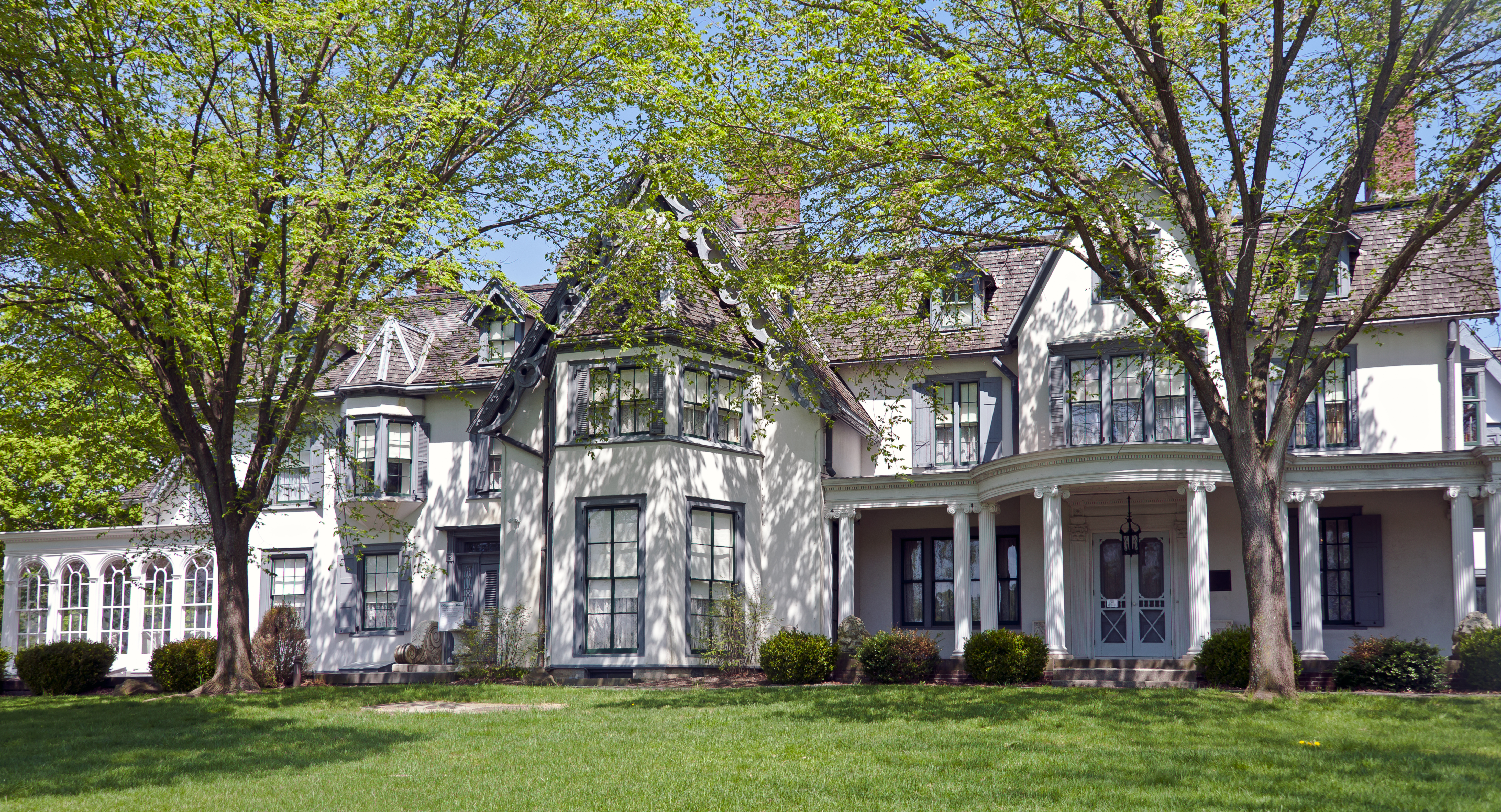 Front view of Ringwood Manor, Ringwood, NJ, USA